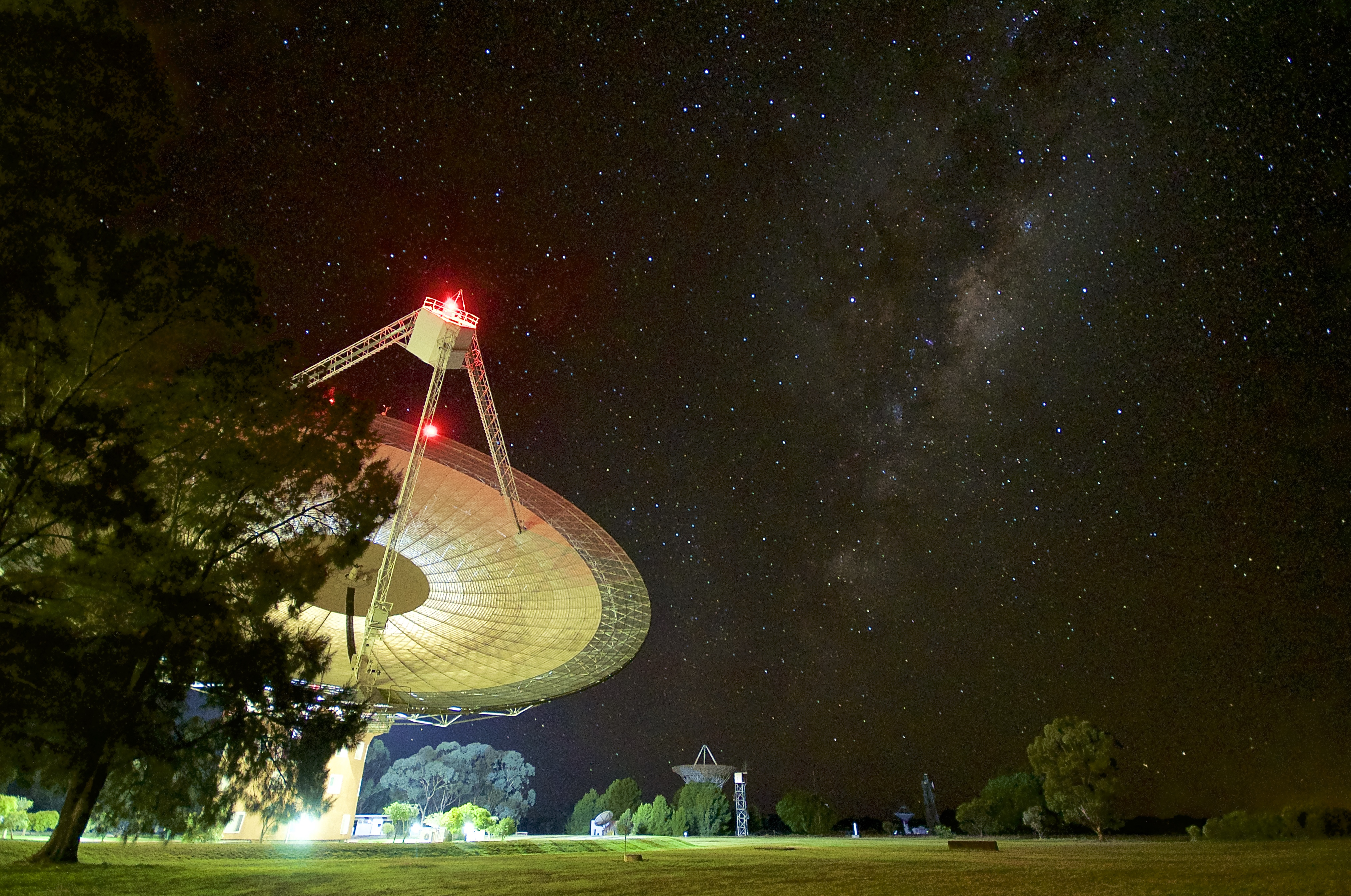 The Parkes 64m radio telescope in Parkes, New South Wales, Australia with the Milky Way overhead.